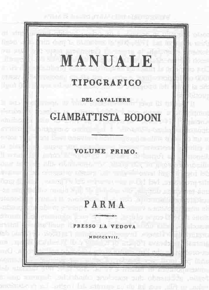 The front page of Il Manuale Tipografico